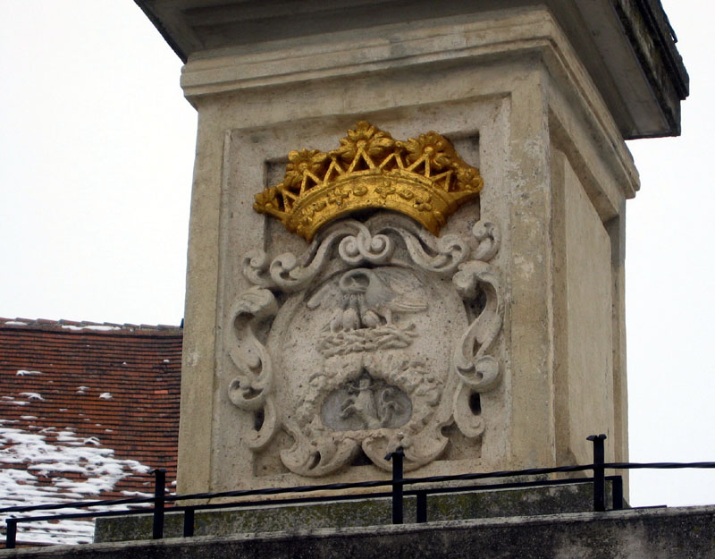 Batthyány emblem at Marian column in Pinkafeld, Burgenland, Austria